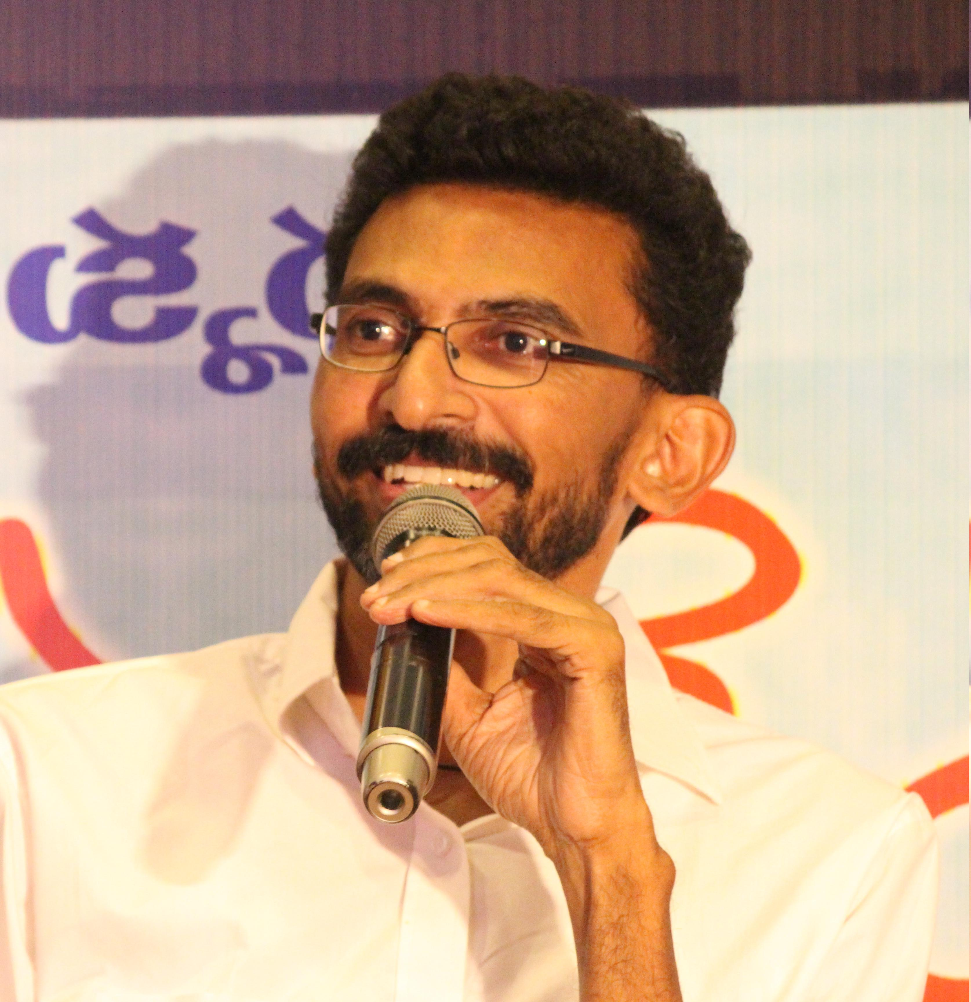 Sekhar Kammula in Cinivaram, Ravindra Bharathi, Hyderabad